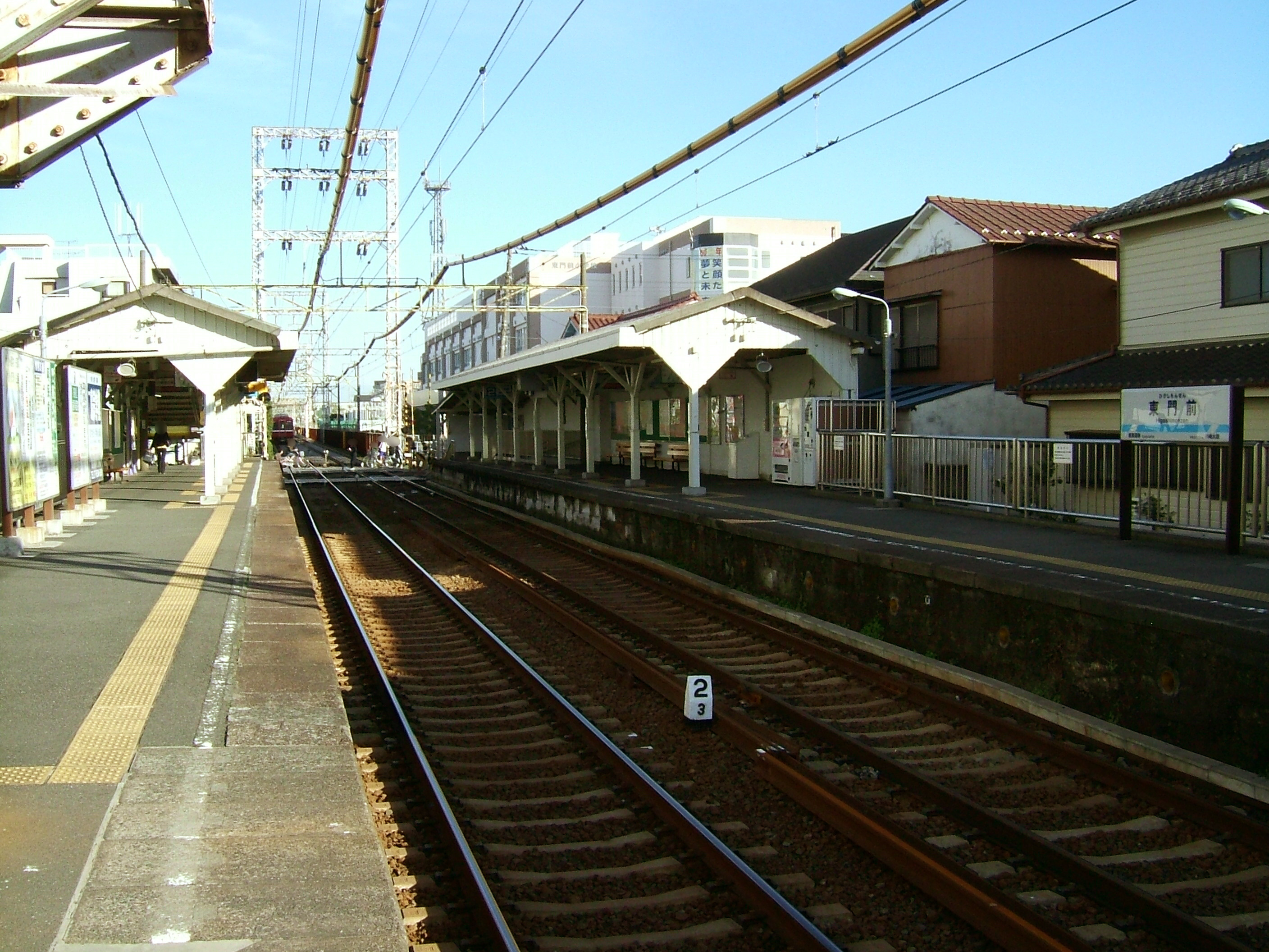 Higashi-Monzen Station platform (Keihin Electric Express Railway Daishi Line)